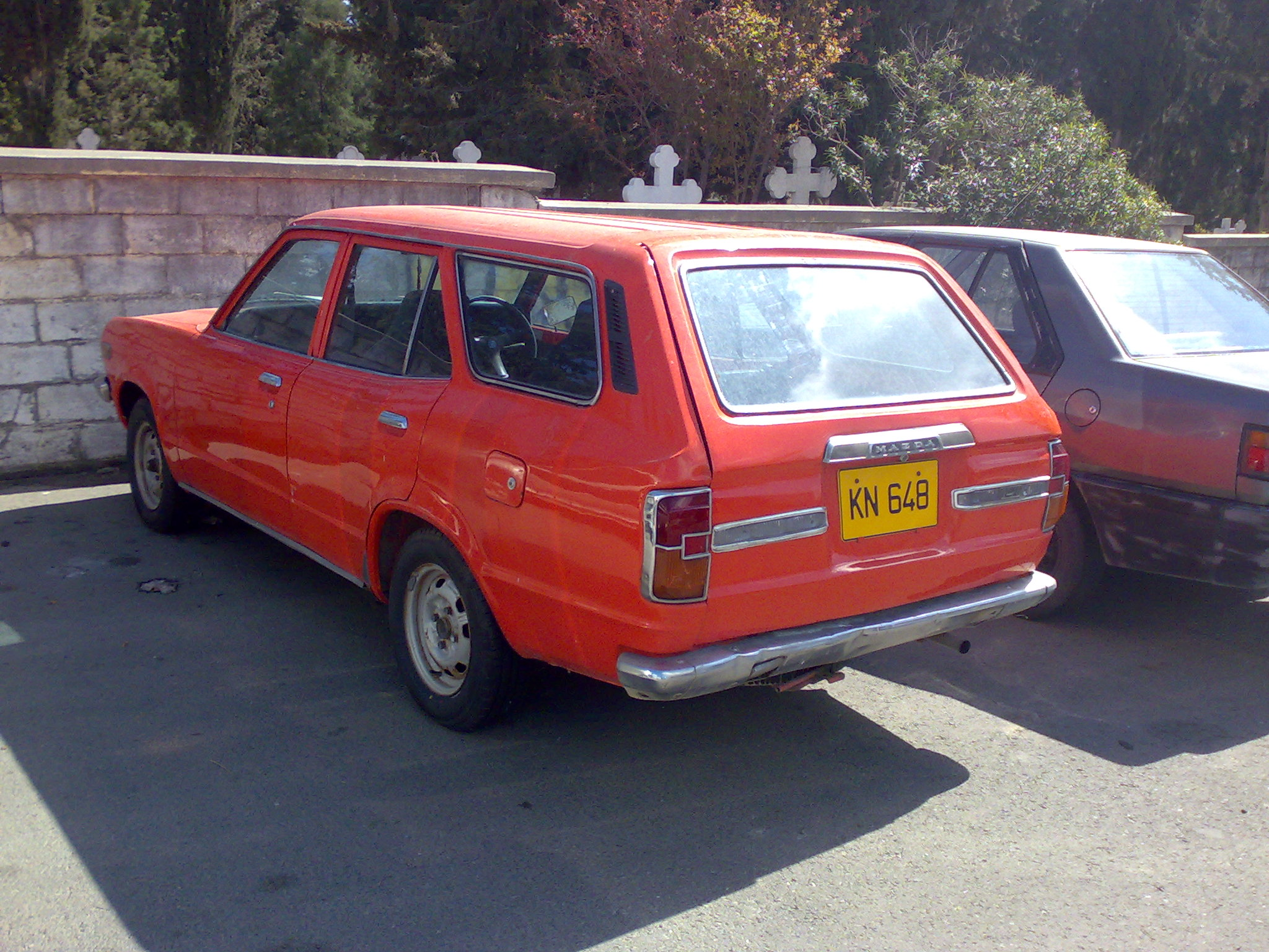 Mazda 818 estate, located in Limassol, Cyprus. Copyright: Old Cars in Cyprus facebook page